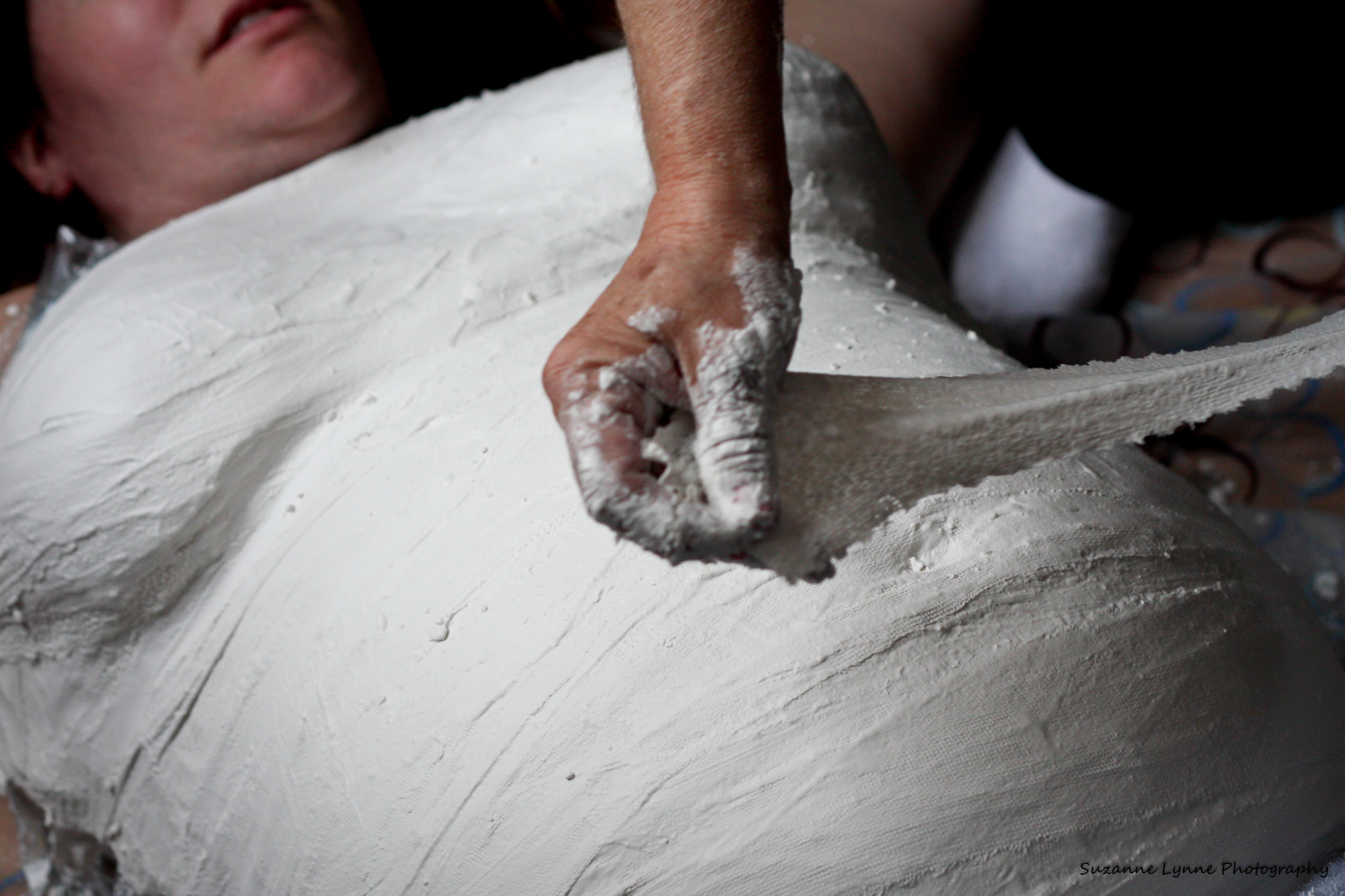 Application of plaster for a belly cast